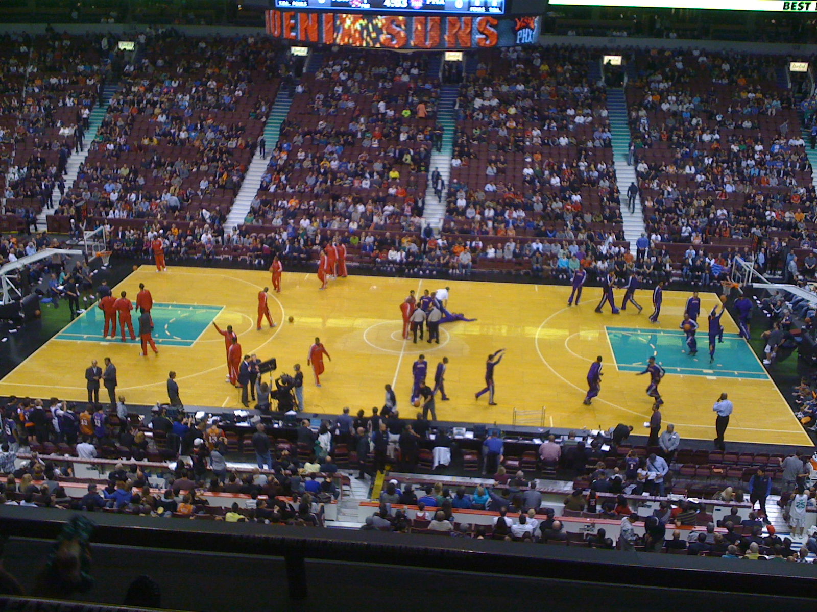 Big boys at Rogers Arena #Nash #Nashcouver